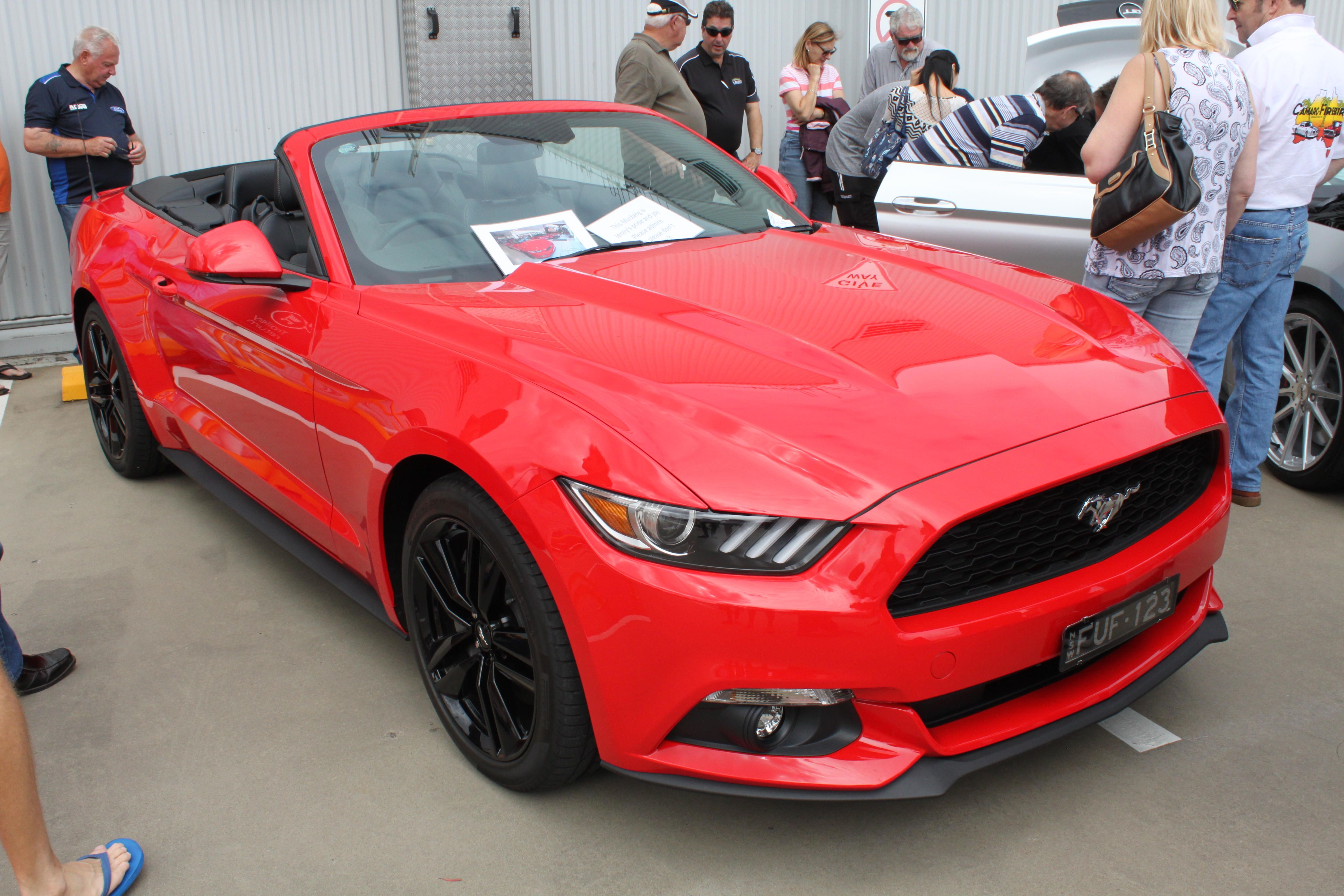 All American Car Show, Castle Hill, NSW January 2016